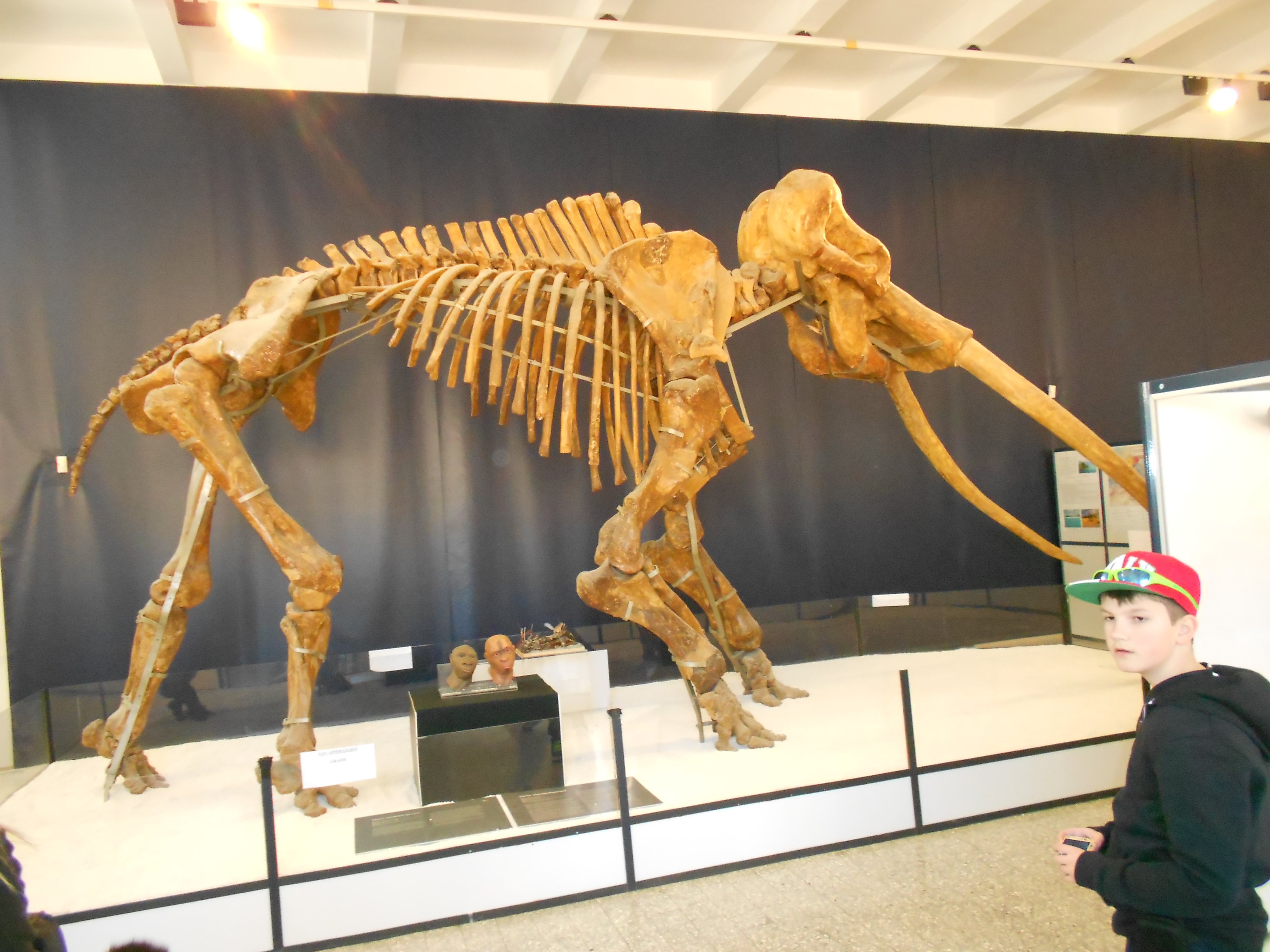 Skeleton of an Elephas antiquus in the Museo paleontologico of the university Sapienzia, Rome